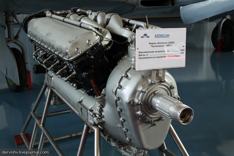 Allison piston aircraft engine in Central Air Force Museum (Moscow)